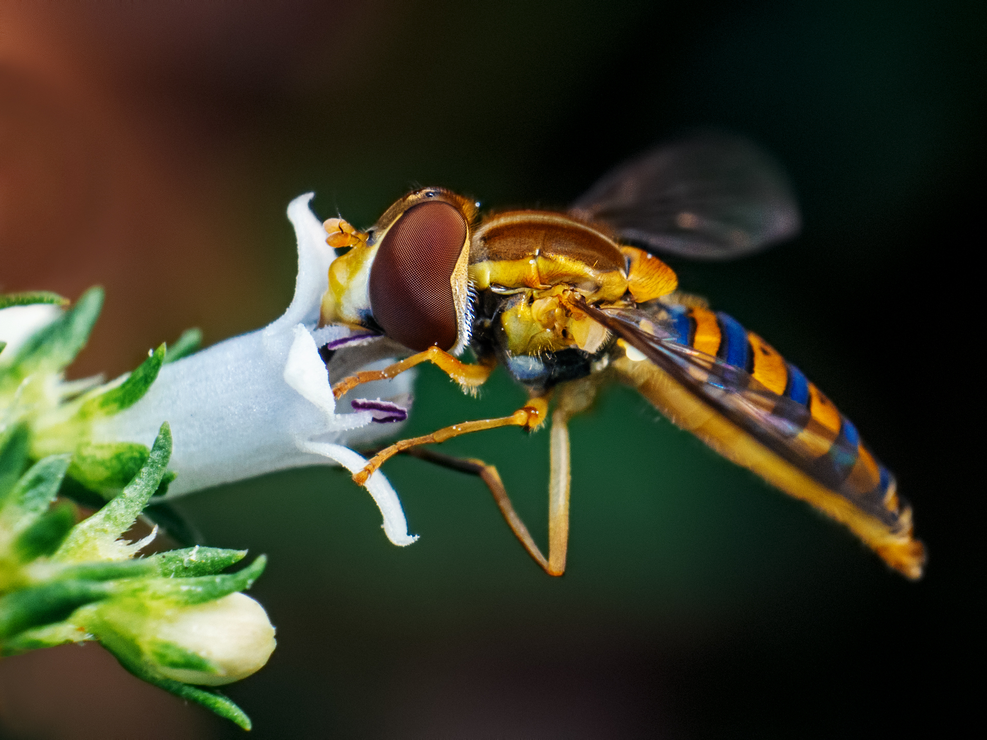 Hoverfly (Syrphidae, Syrphinae) with blue stripes feeding on a flower in Serra do Papagaio state park, Matutu valley, Aiuruoca, Brazil.